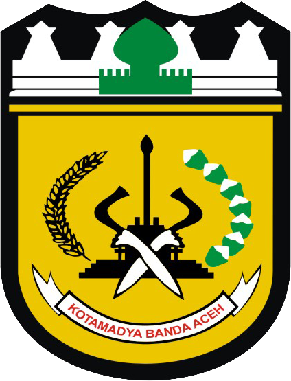 Coat of Arms, or Symbol (Lambang) of Kota (City) of Banda Aceh in Aceh Province, Indonesia